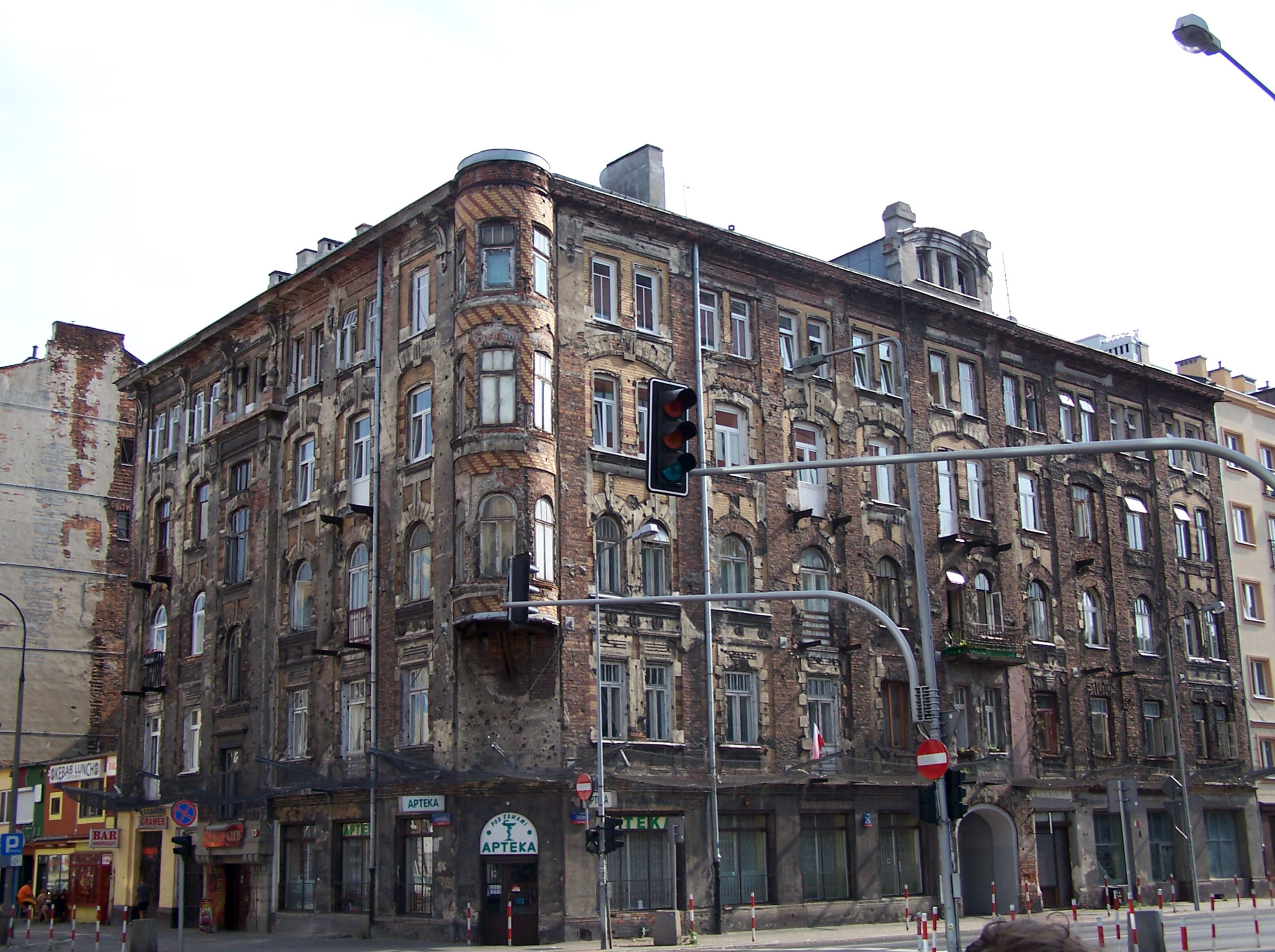 Tenement house at the corner of Jagiellońska and Stefana Okrzei streets in Warsaw, Poland